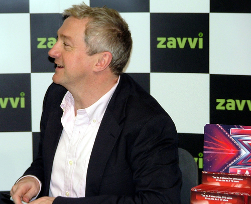 Louie Walsh - Virgin Mega Store, London, England - Monday November 26th 2007.